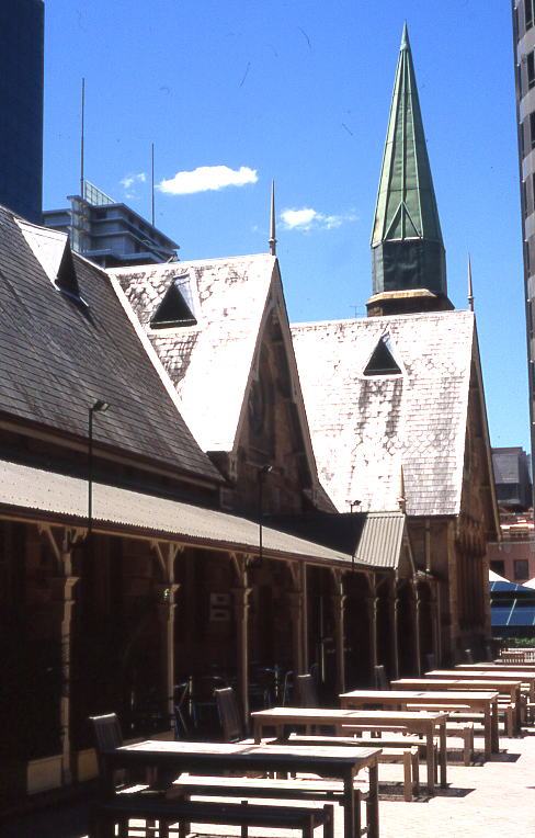 Former Technical College (now Greenwood Hotel), Blue Street, North Sydney, New South Wales, Sydney, photo by Sardaka 09:37, 7 November 2007 (UTC)